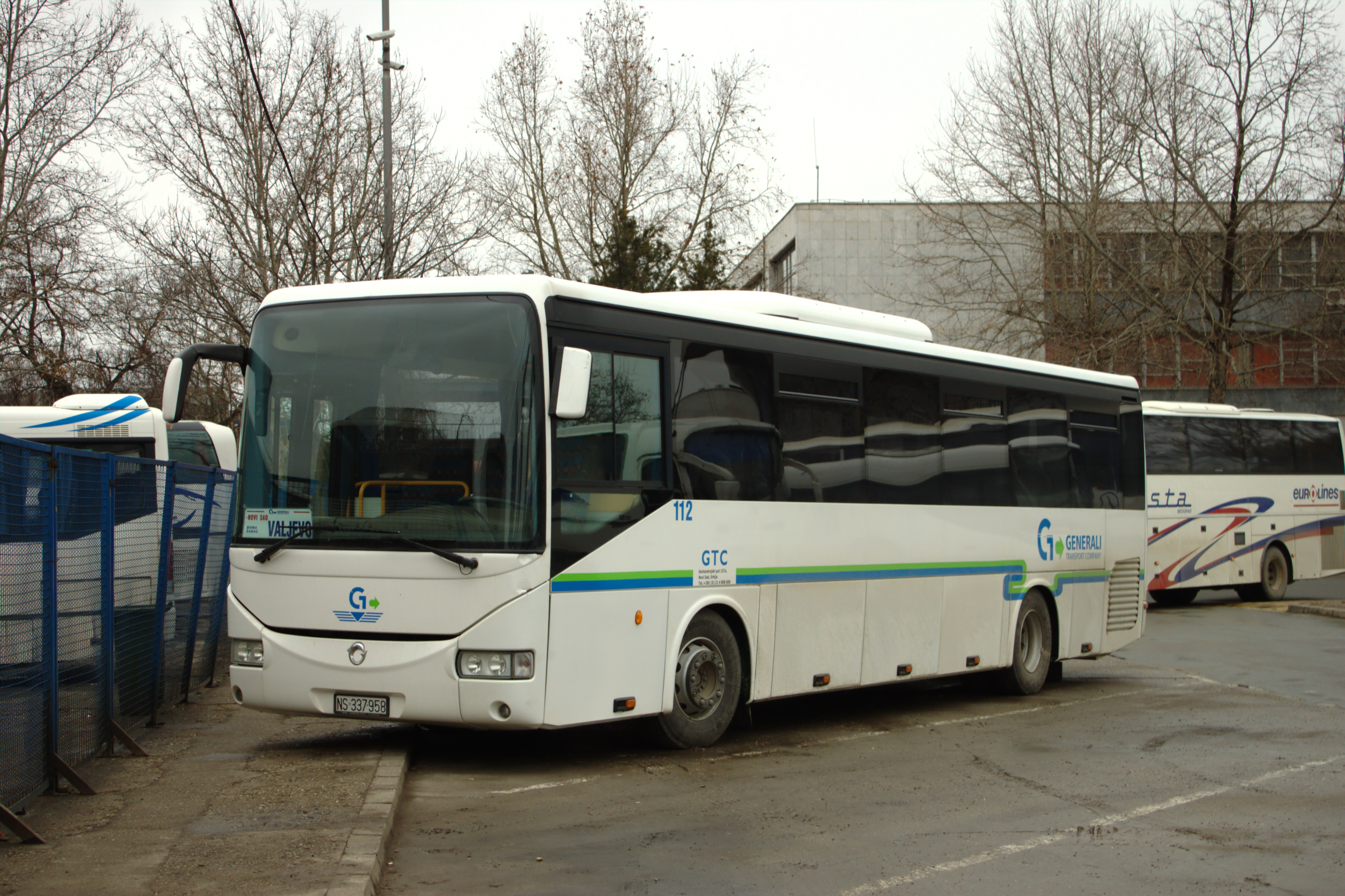 An Irisbus Crossway bus of the Novi Sad-Valjevo intercity line at Novi Sad Bus Terminus, Serbia